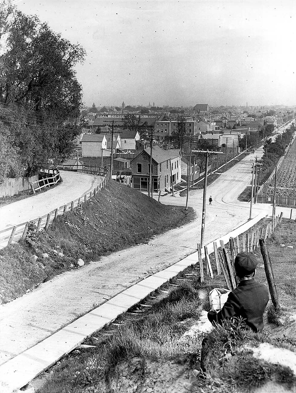 Photographer: William James 1907 City of Toronto Archives This image is available from the City of Toronto Archives, listed under the archival citation Fonds 1244, Item 700. This tag does not indicate the copyright status of the attached work. A normal copyright tag is still required. See Commons:Licensing for more information. The view is looking to the south along Bathurst Street. Davenport Road crosses left-right mid-frame.